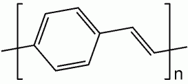 Description: Chemical structure of Polyphenylene vinylene Author, date of creation: selfmade by Shaddack, 1 December 2005 Source: self-made Copyright: Public Domain (PD) Comments: b/w hires PNG; ChemDraw